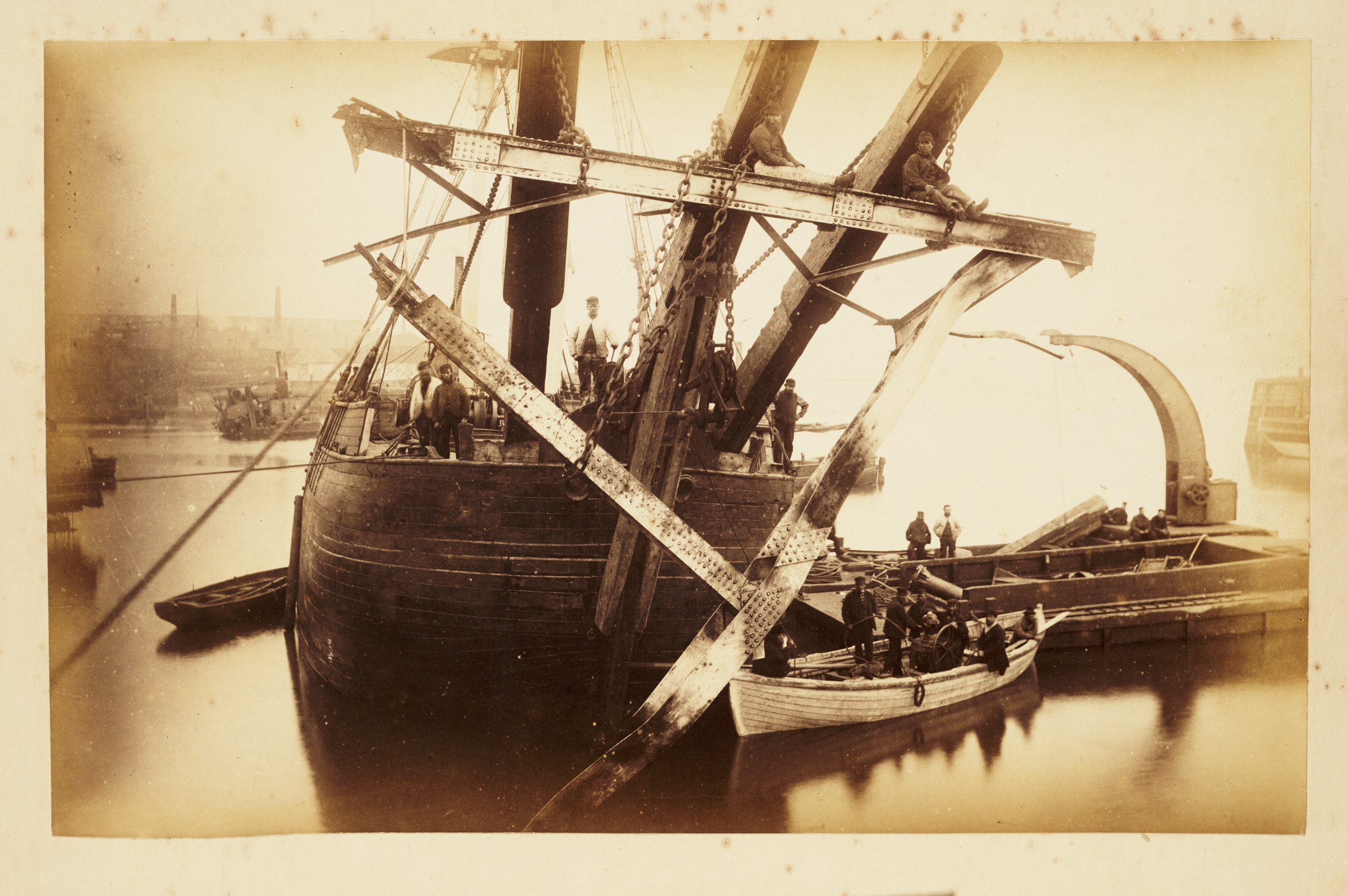 Photograph of men on a ship salvaging wreckage of the collapsed first Tay Bridge, with other boats and men in the background.